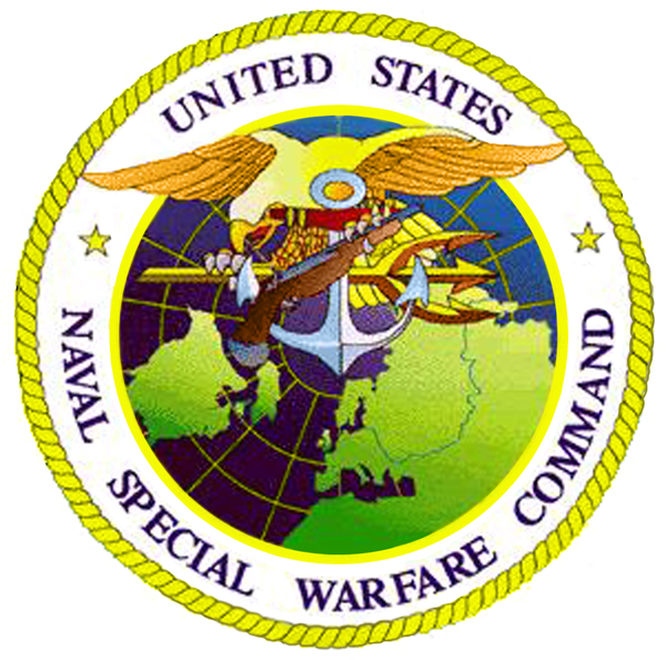 Logo United States Naval Special Warfare Command